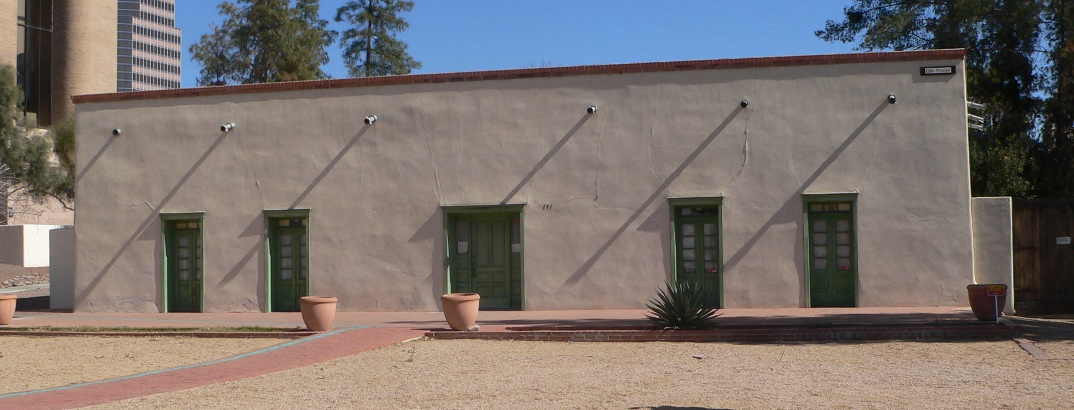 Sosa-Carillo-Fremont House, located in the Tucson Convention Center complex south of Broadway Boulevard between Church and Granada Avenues in Tucson, Arizona; seen from the west.